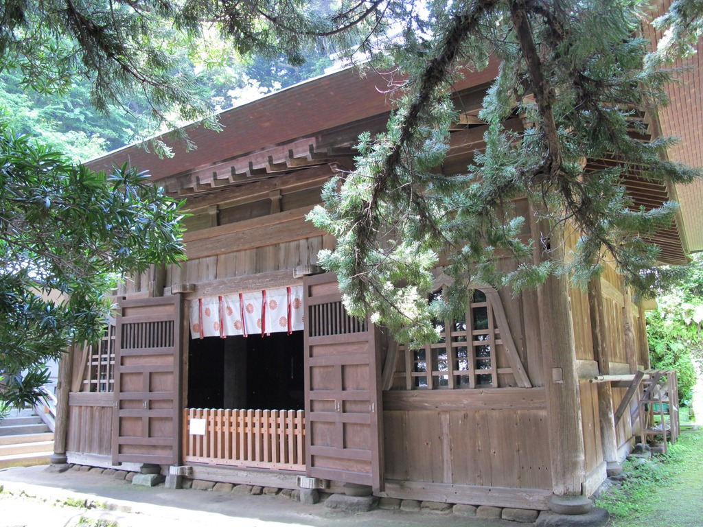 Amida-dō hall of Jōkōmyō-ji Temple in Kamakura, Kanagawa